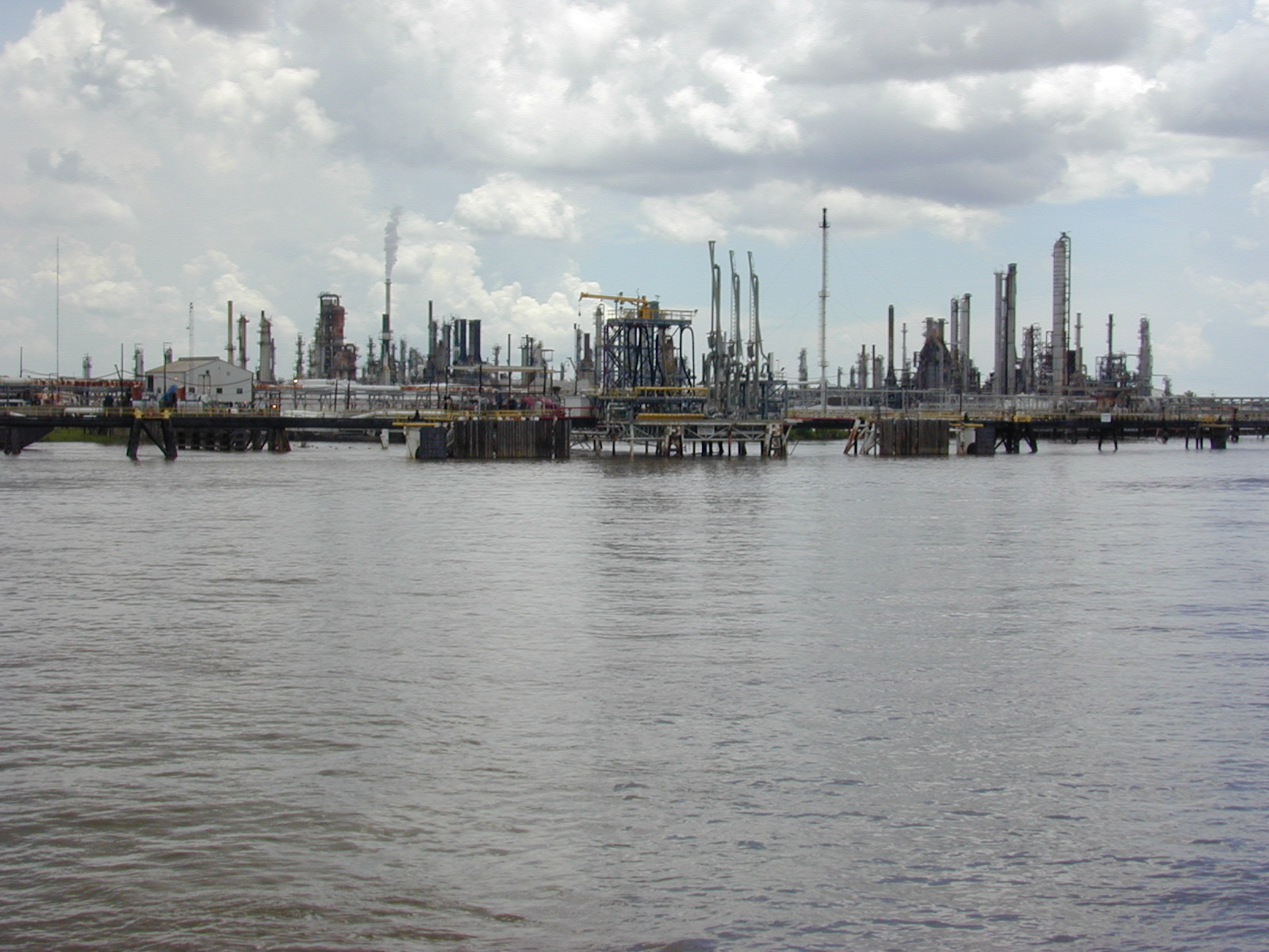 Oil refinery on the Mississippi outside New Orleans. Photo by Jan Kronsell, 2004.